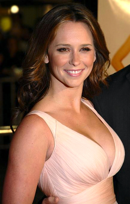 Actress Jennifer Love Hewitt at the premiere of "27 Dresses"